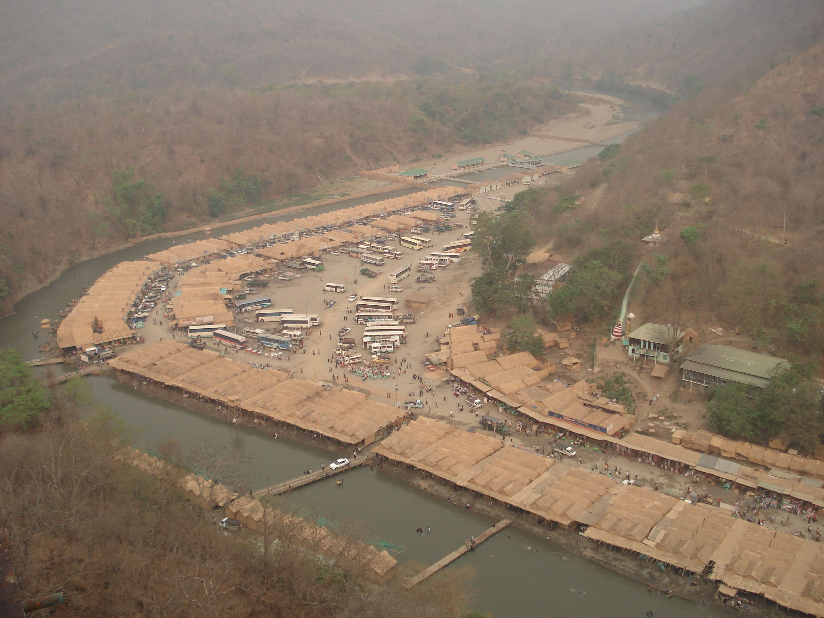 Shwe Settaw Pagoda festival, 2006မြန်မာဘာသာ: မကွေးတိုင်းဒေသကြီး၊ မင်းဘူးမြို့နယ်ရှိ စက်တော်ရာဘုရားပွဲ (၂၀၀၆)